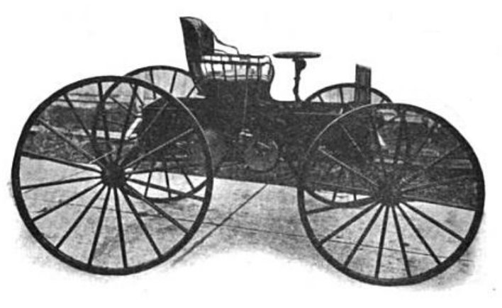 The photo is from an article on page 166 in the April 1906 issue of Cycle and Automobile Trade Journal. The scan is from the Google Book archive. Title Automobile trade journal, Volume 10 Publisher Chilton Company, 1906 Original from the University of Michigan Digitized Oct 2, 2007